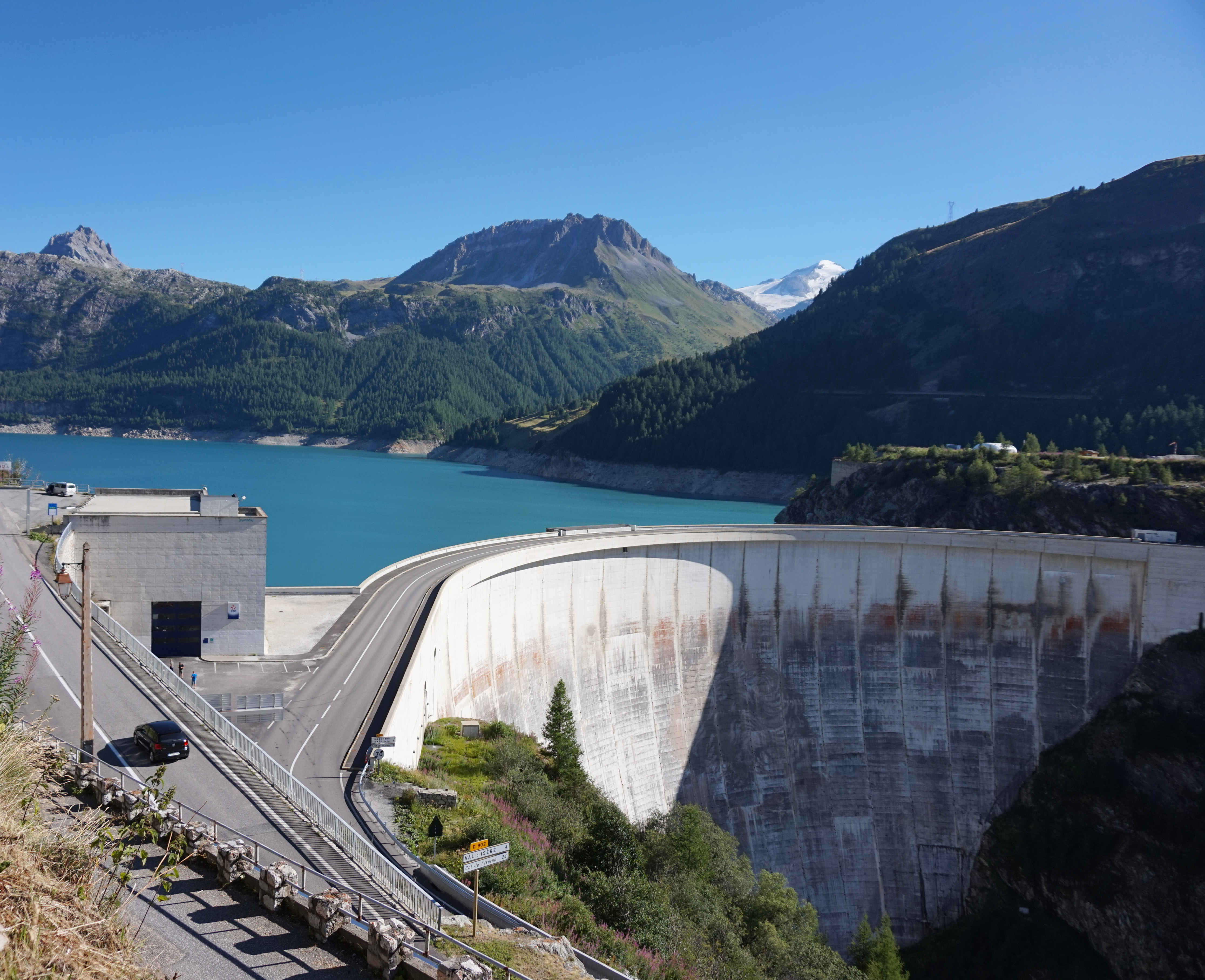 Tignes Dam in Tignes, France. This photograph was taken with a Sony Alpha a5000.